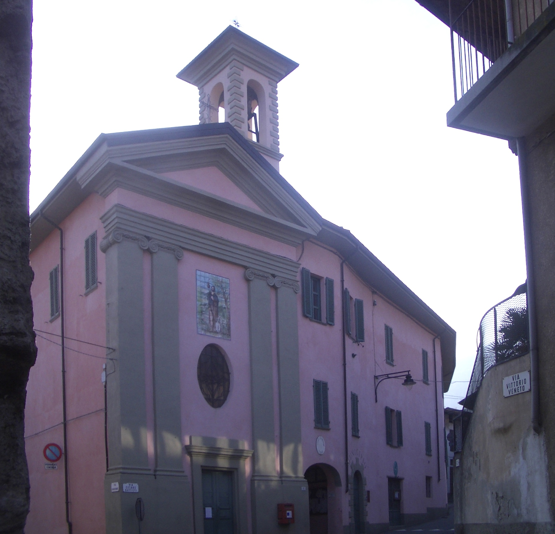 St. George chapel and the town hall, Lessolo, Province of Turin, Italy